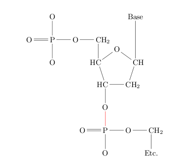 The phosphodiester liaison is in red.